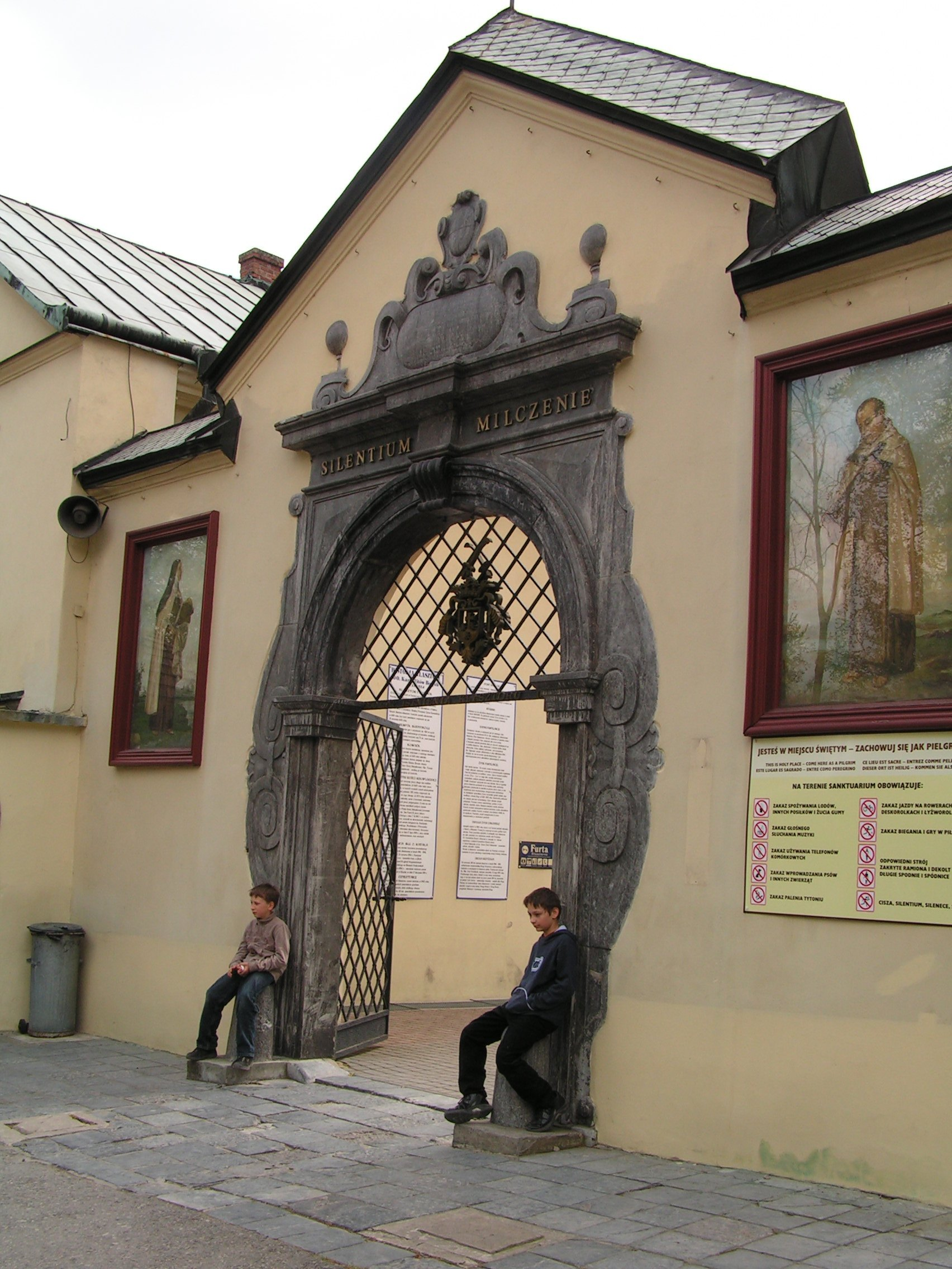 Czerna monastery - entrance, Poland